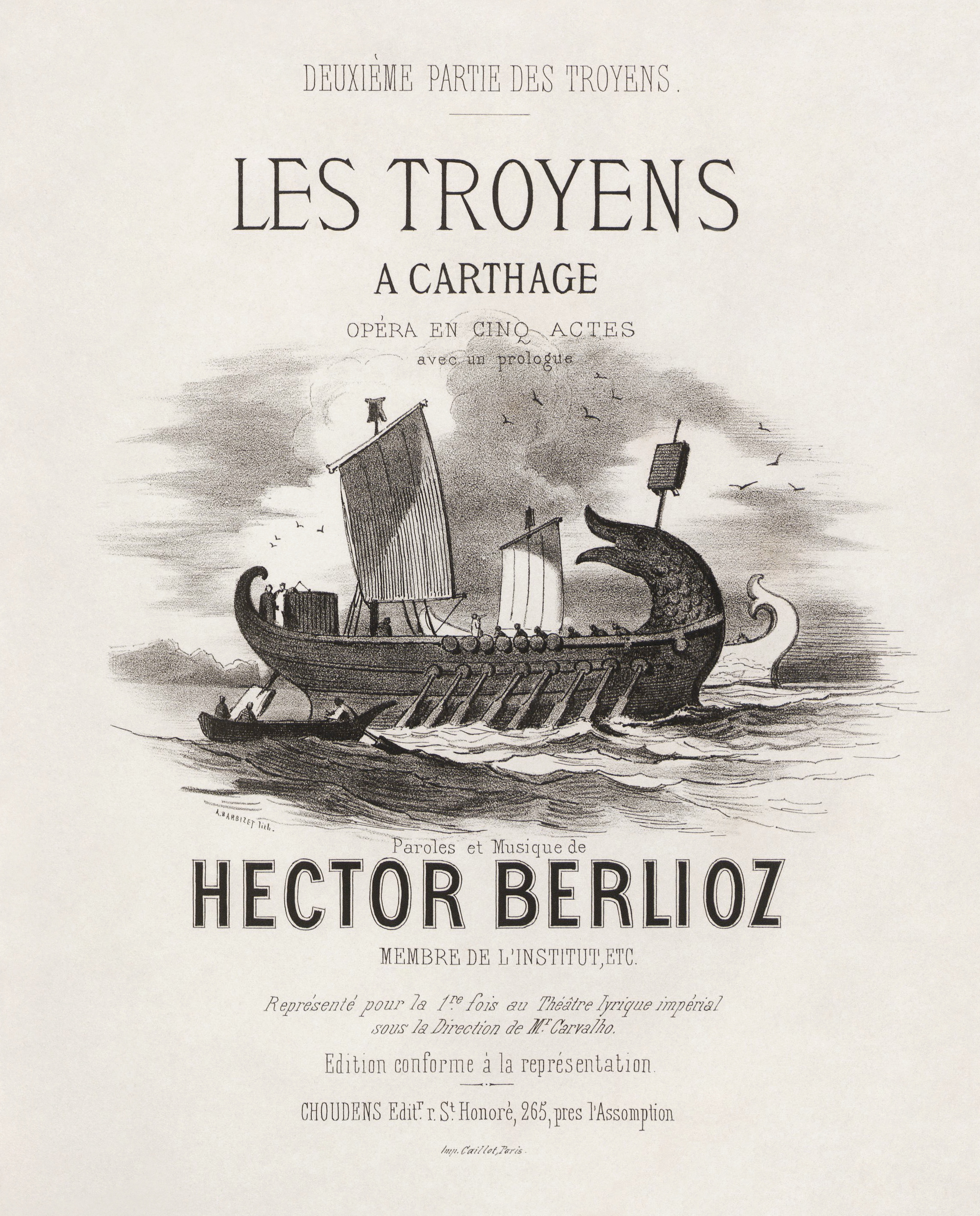 Cover for Les Troyens à Carthage by Hector Berlioz from the "second version, second issue" of the vocal score; Les Troyens à Carthage is the second half of Berlioz's opera Les Troyens, and the only half put on during his lifetime. The vocal score for Les Troyens which this comes from was published in two volumes, one for each half of the opera, with each volume having an individual illustration, as well as a general illustration for Les Troyens as a whole which is exactly the same in both halves. This is the unique cover for Les Troyens à Carthage.